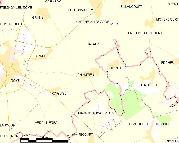 Map of French municipality Champien